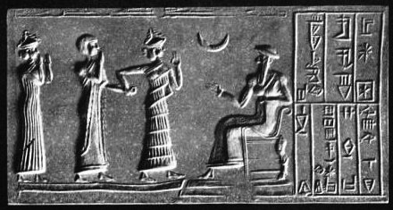 Another vieworiginal 1915 caption: "Worship of the Moon God. Cylinder-seal of Khashkhamer, patesi of Ishkun-Sin (in North Babylonia), and vassal of Ur-Engur, king of Ur (c. 2400 BC) (British Museum). Photo: Mansell"